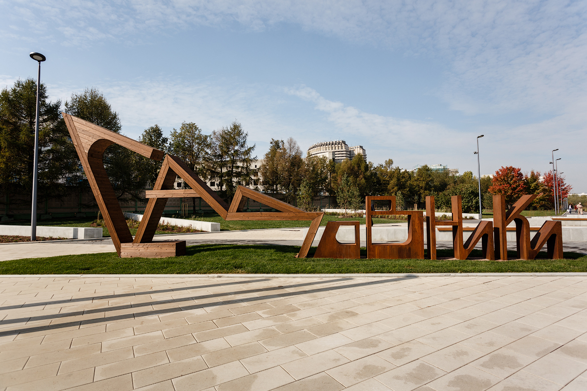 glavsad